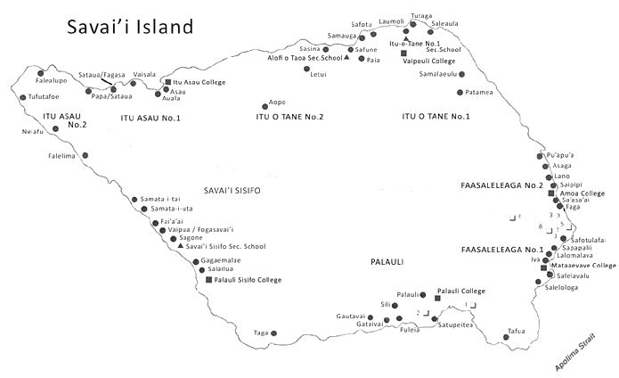 Savai'i school map 2009, taken from the official government of Samoa Ministry of Education website, illustrating schools in Savai'i island. Gagana Samoa: Ata fa'afanua o aoga ma kolisi i Savai'i, 2009.